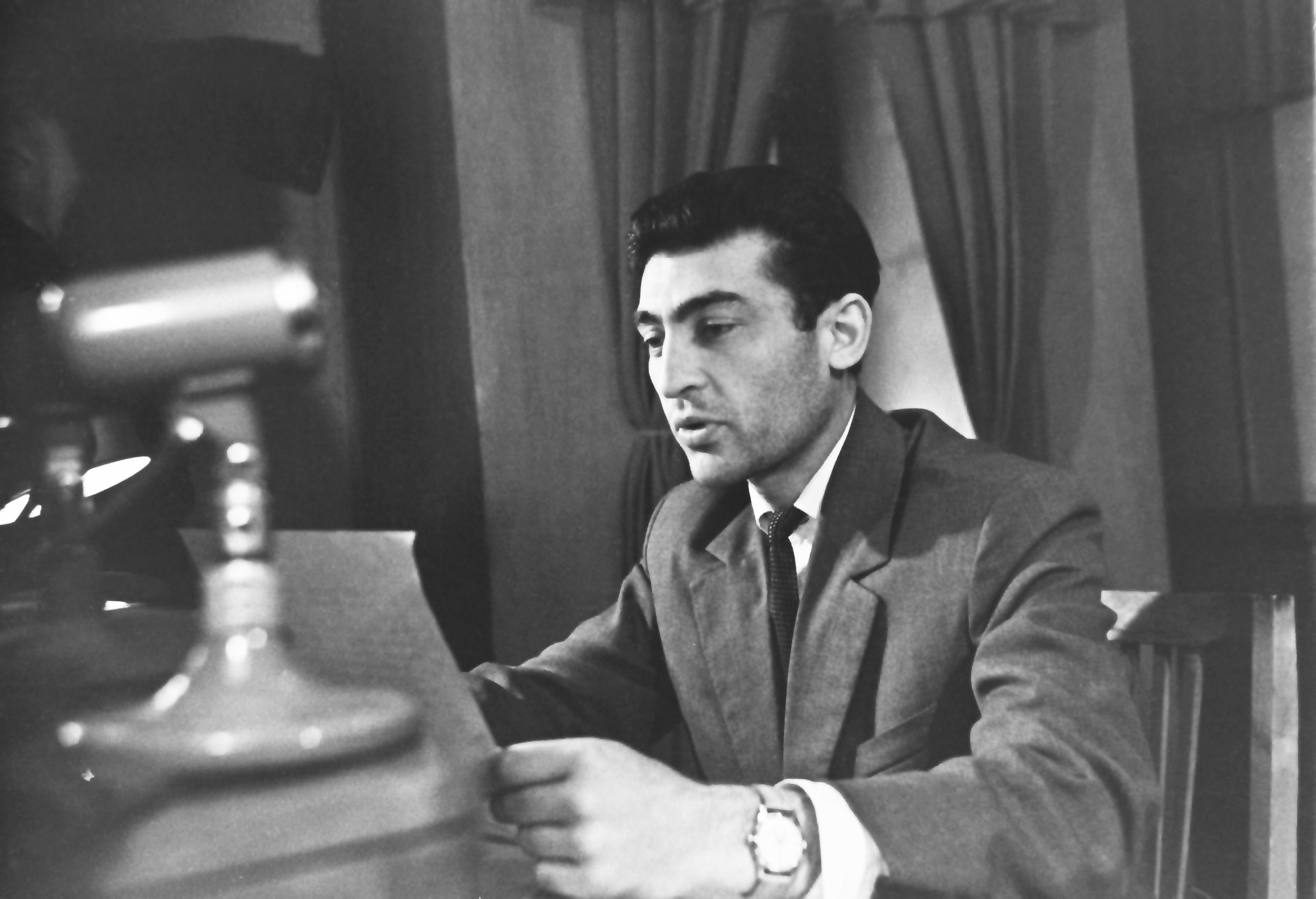 Portrait of Valery Rovinsky 1964